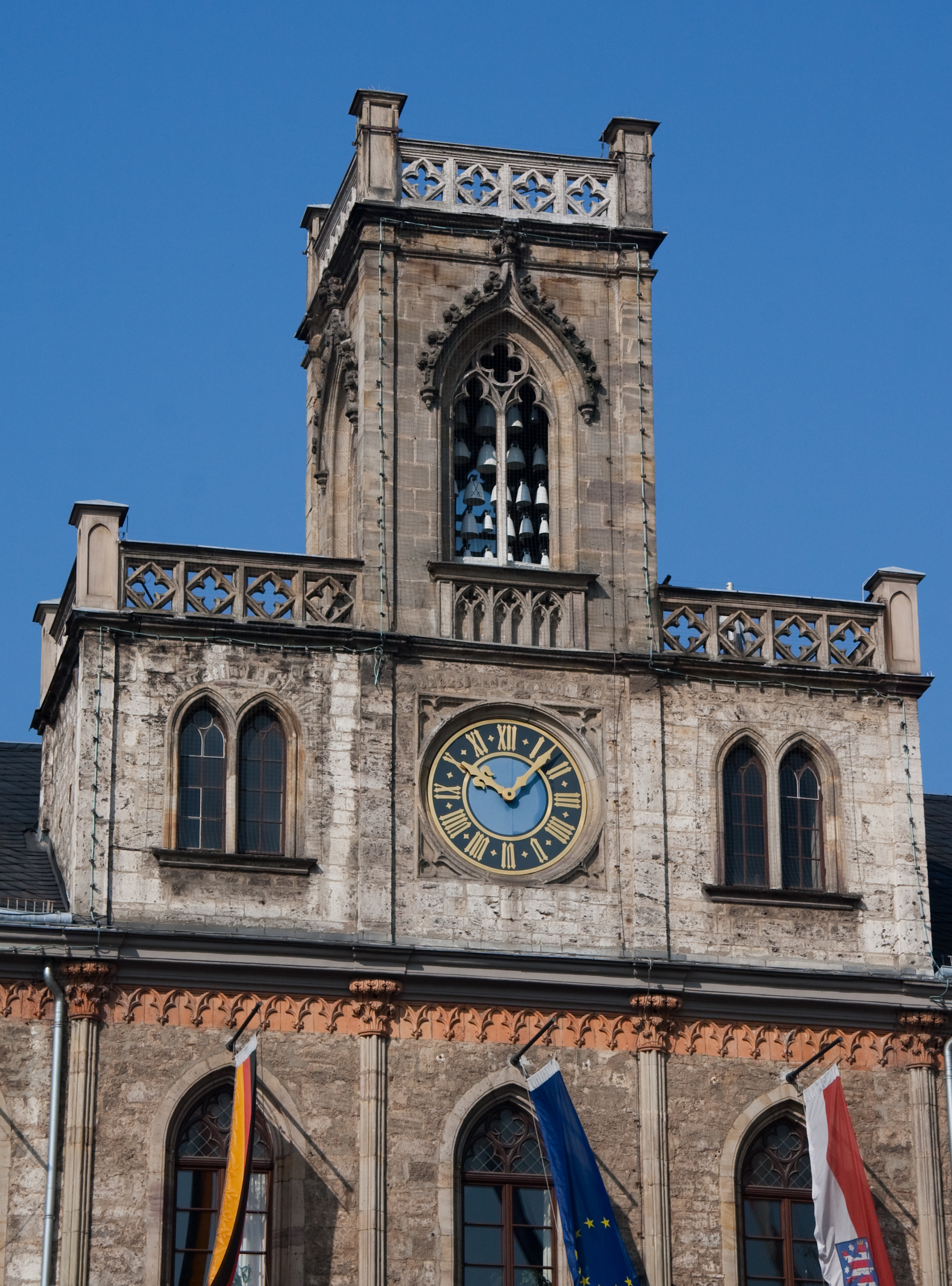 Town Hall of Weimar